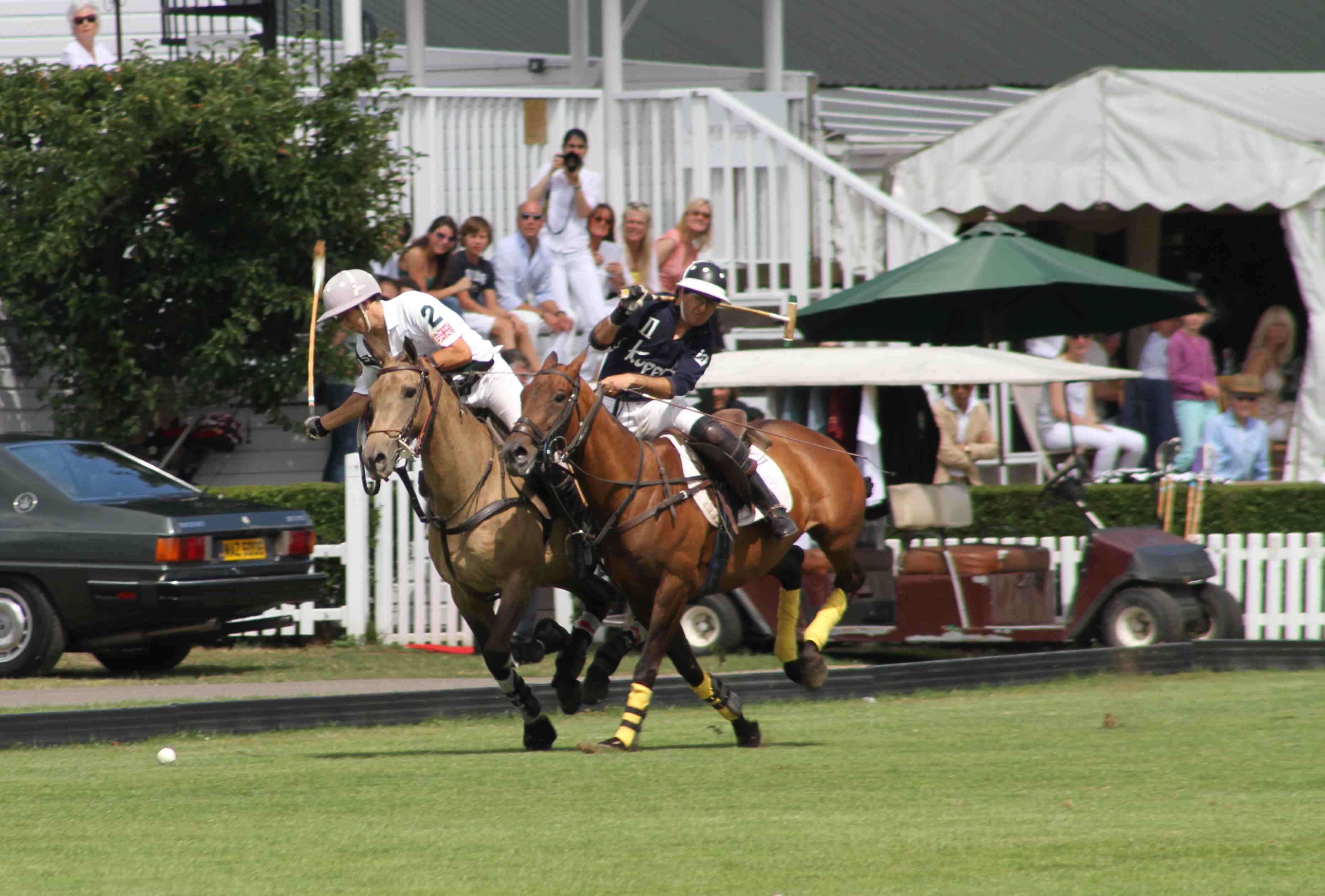 Action from the 2010 Dubai trophy final